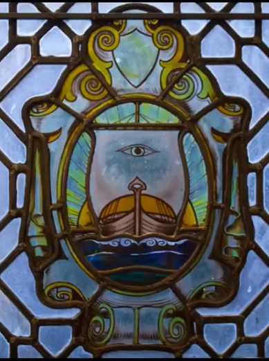 A stained class window at the Liverpool School of Tropical Medicine which depicts the school's emblem.